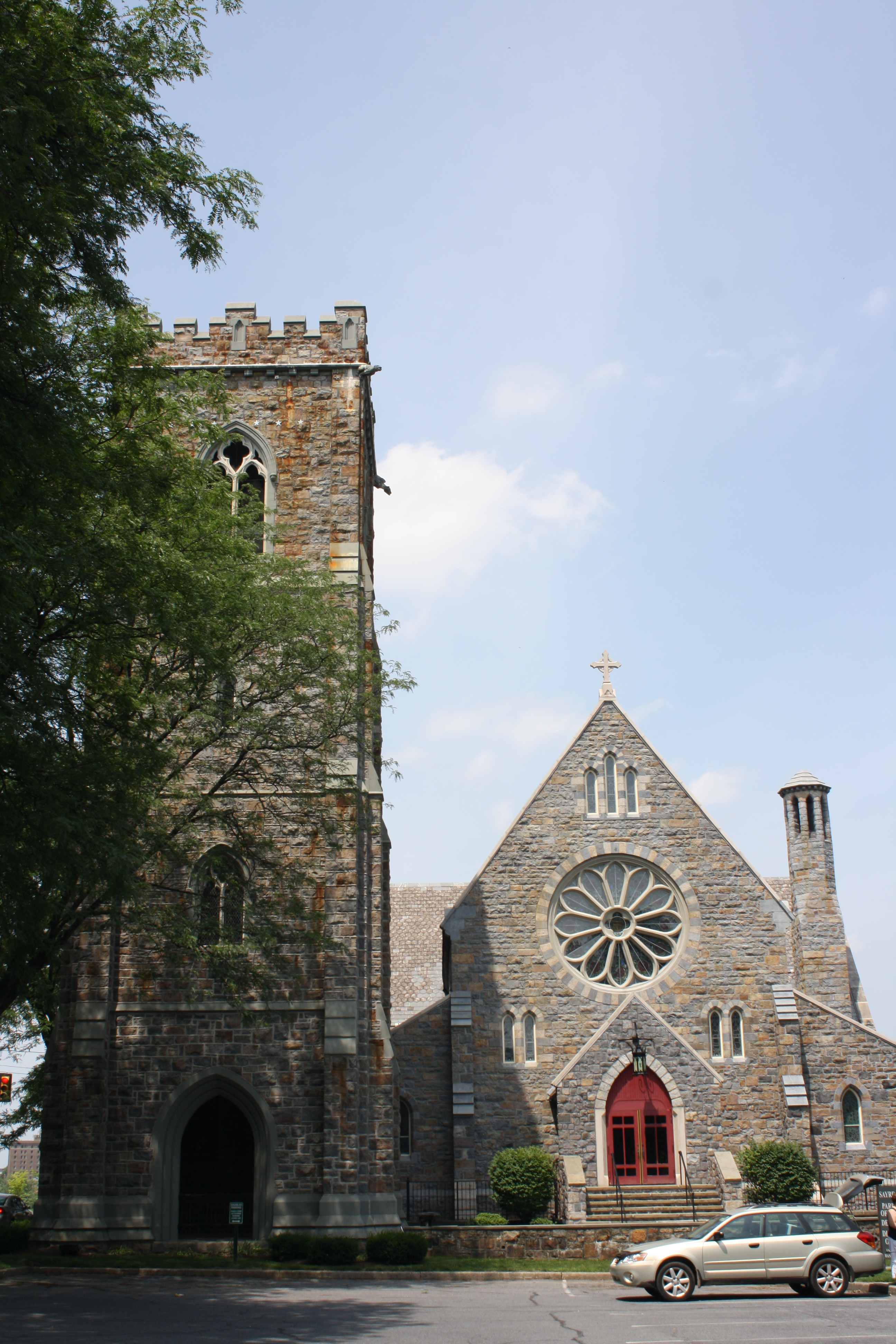 Fountain Hill Historic District is a national historic district located at Bethlehem, Lehigh County and Northampton County, Pennsylvania. Nativity Episcopal Cathedral (c. 1866). Corner of W 3rd St. and Wyandotte St.